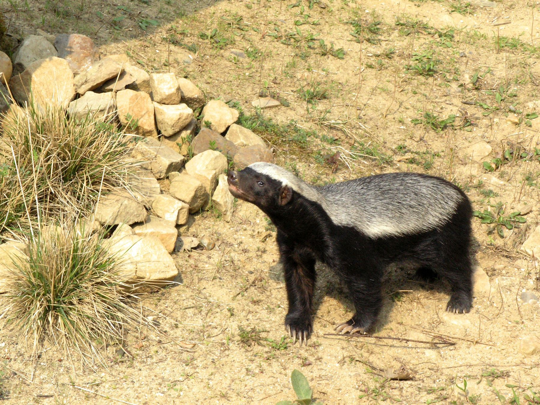 Honey Badger (Mellivora capensis) at the Prague Zoo